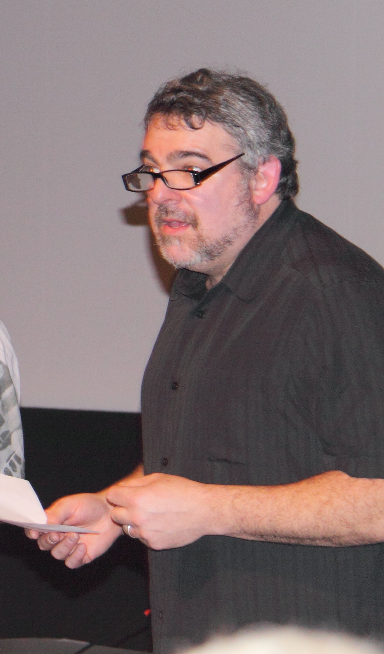 photograph of Larry Polansky, picture from a panel discussion January, 2009